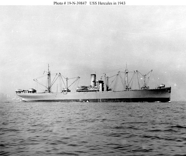 Official U.S. Navy Photo, from the Naval Historical Center